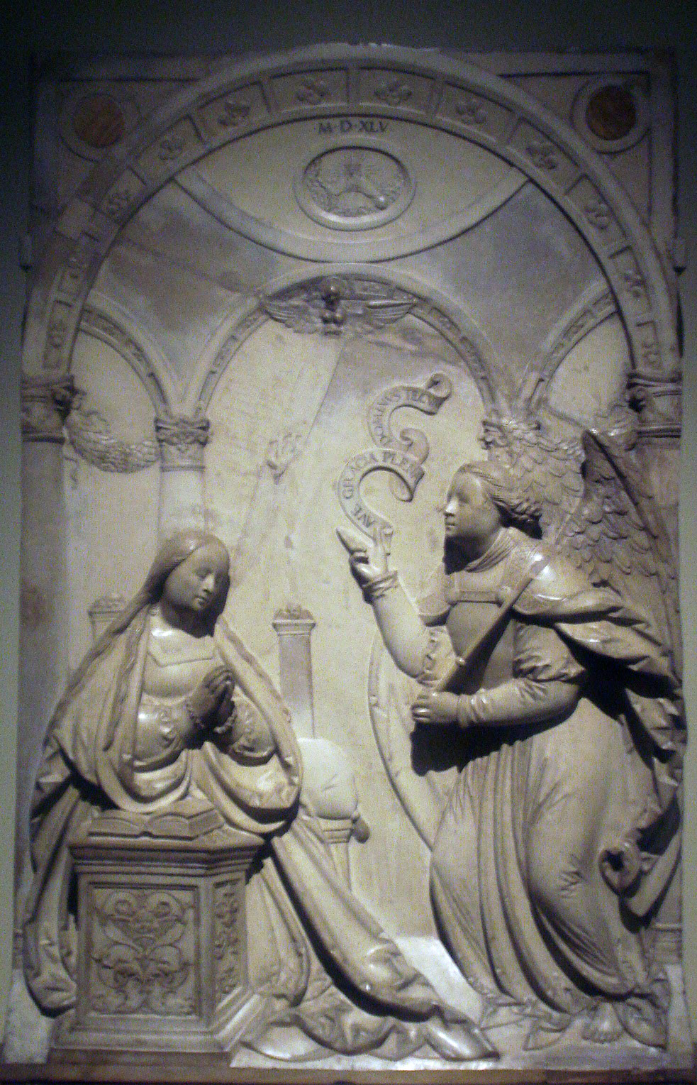 Annunciation, by Loy Hering, Eichstaett, Germany, 1545. Relief carved in Honestone. In the collection of the Taft Museum of Art, Bequest of Mr. and Mrs. Charles Phelps Taft, 1931.318